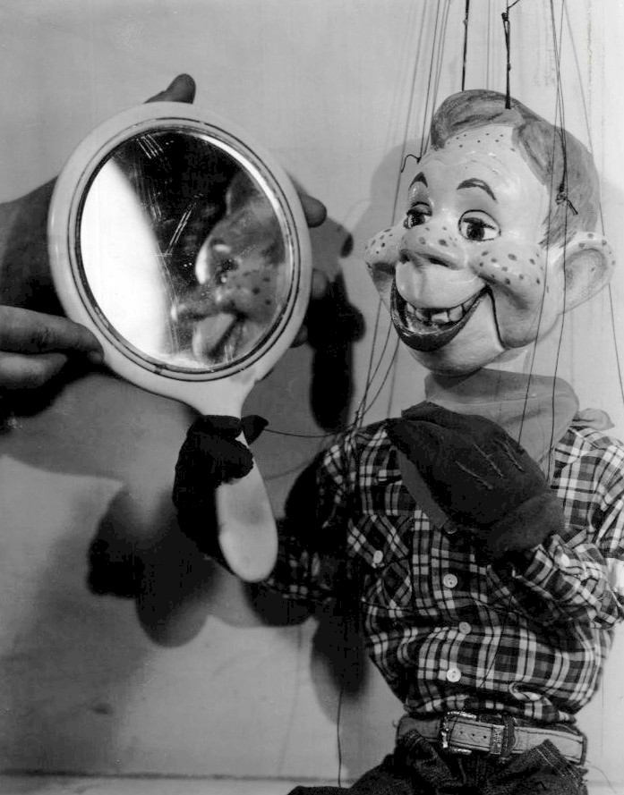 Photo of Howdy Doody as the puppet examines himself after "plastic surgery" to change his appearance. This was the debut of the redesigned puppet. When the creator of the original puppet stormed out of NBC with it about 4 hours before the live show was to air, NBC quickly created a publicity campaign to explain the puppet's absence from the children's show; that Howdy Doody decided to improve his looks with plastic surgery. This gave the designer of the new puppet time for her work; the puppet was not voiced by the creator of the original puppet, so the character's voice would remain as it had been. This is the puppet most people think is the original Howdy Doody.